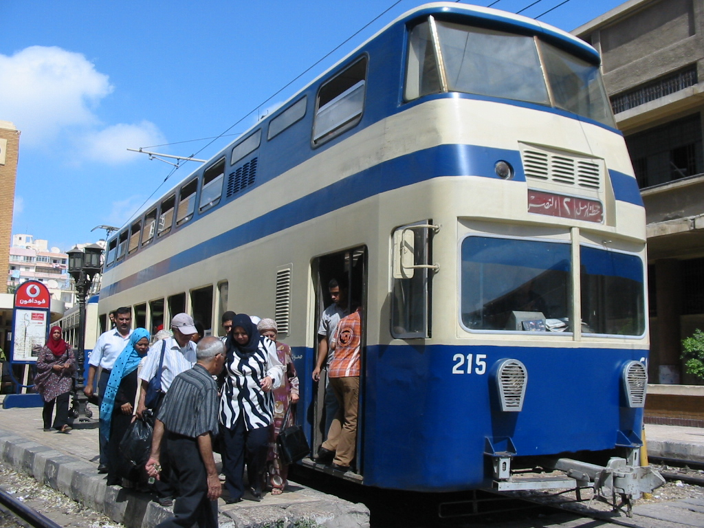 A double-decker tram in Alexandria running route 2